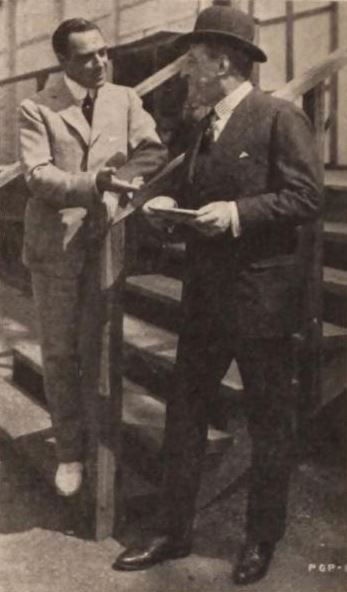 Still from the production of the American drama film At the End of the World (1921) with director Penrhyn Stanlaws and cast member Joseph Kilgour, on page 66 of the May 7, 1921 Exhibitors Herald.